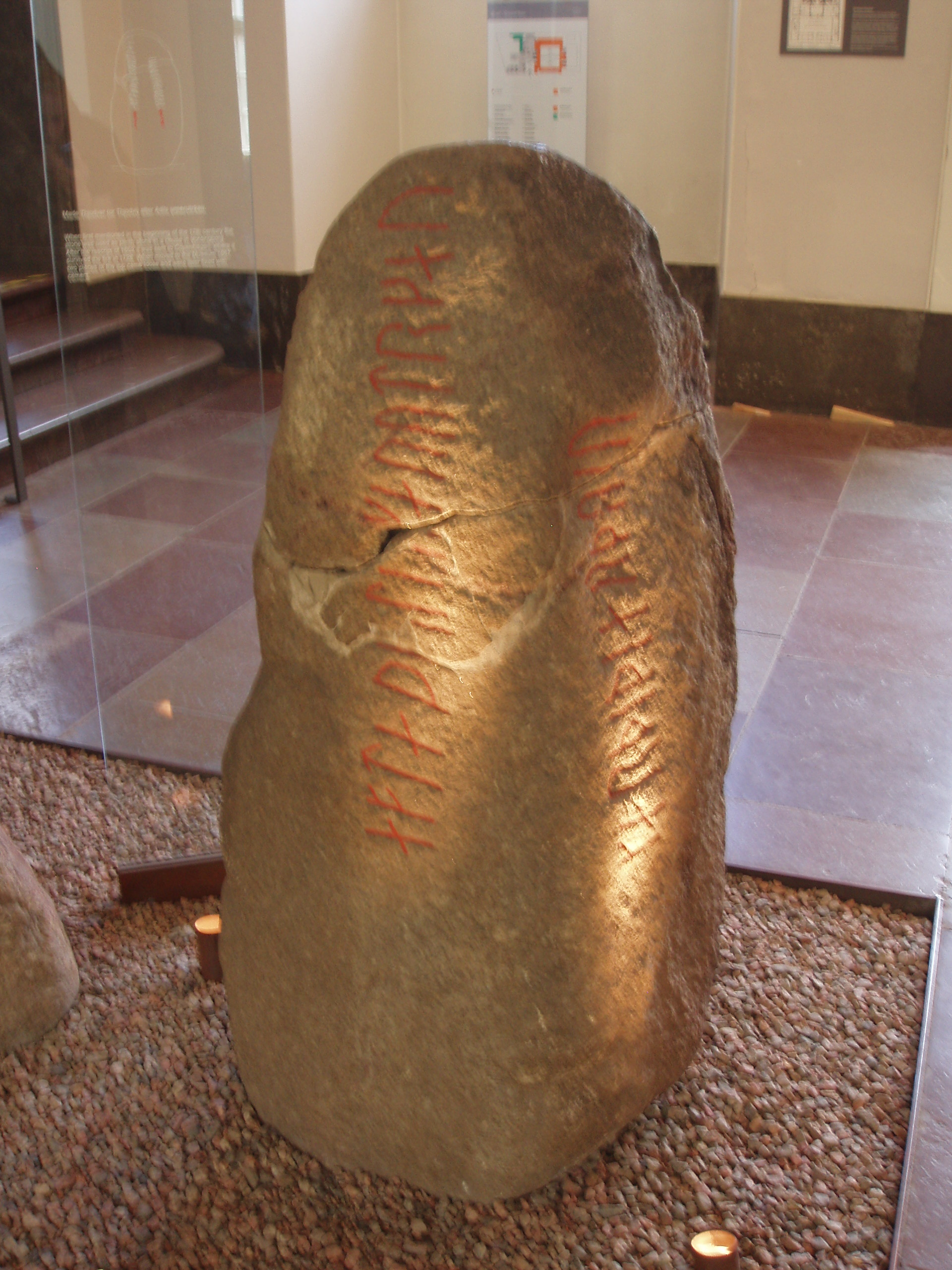 One of the sides of the Vordingborg runestone. It is now located in the National Museum of Copenhagen.